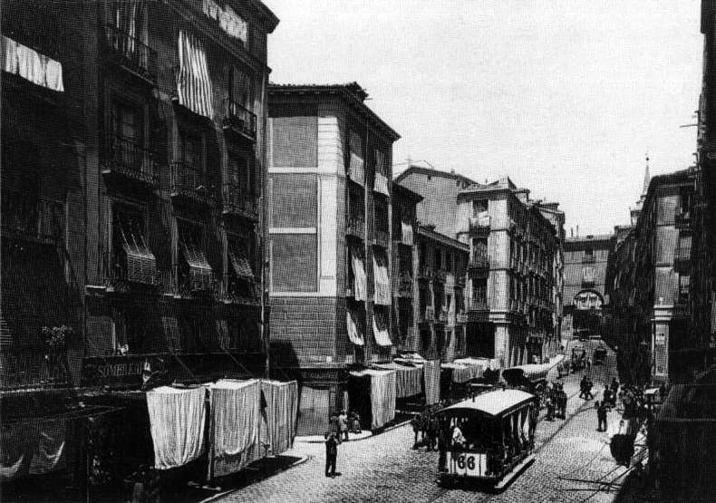 Old image of Toledo St. Madrid, Spain